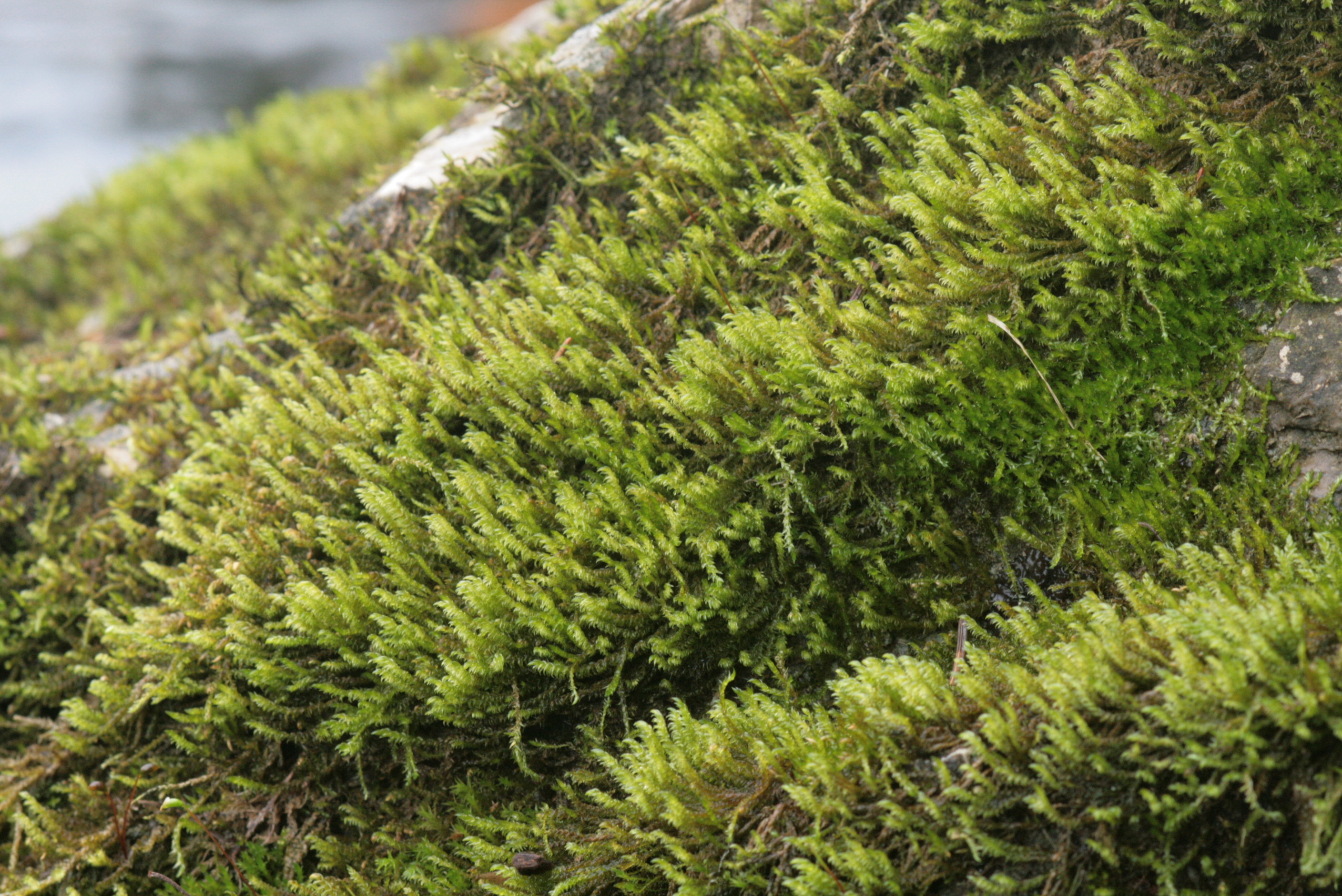 Hygrohypnum luridum